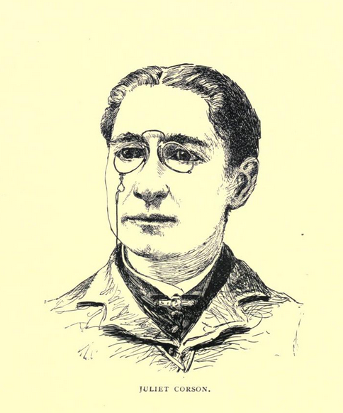 Portrait of Juliet Corson appearing in Successful Womean (1888) by Sarah K. Bolton